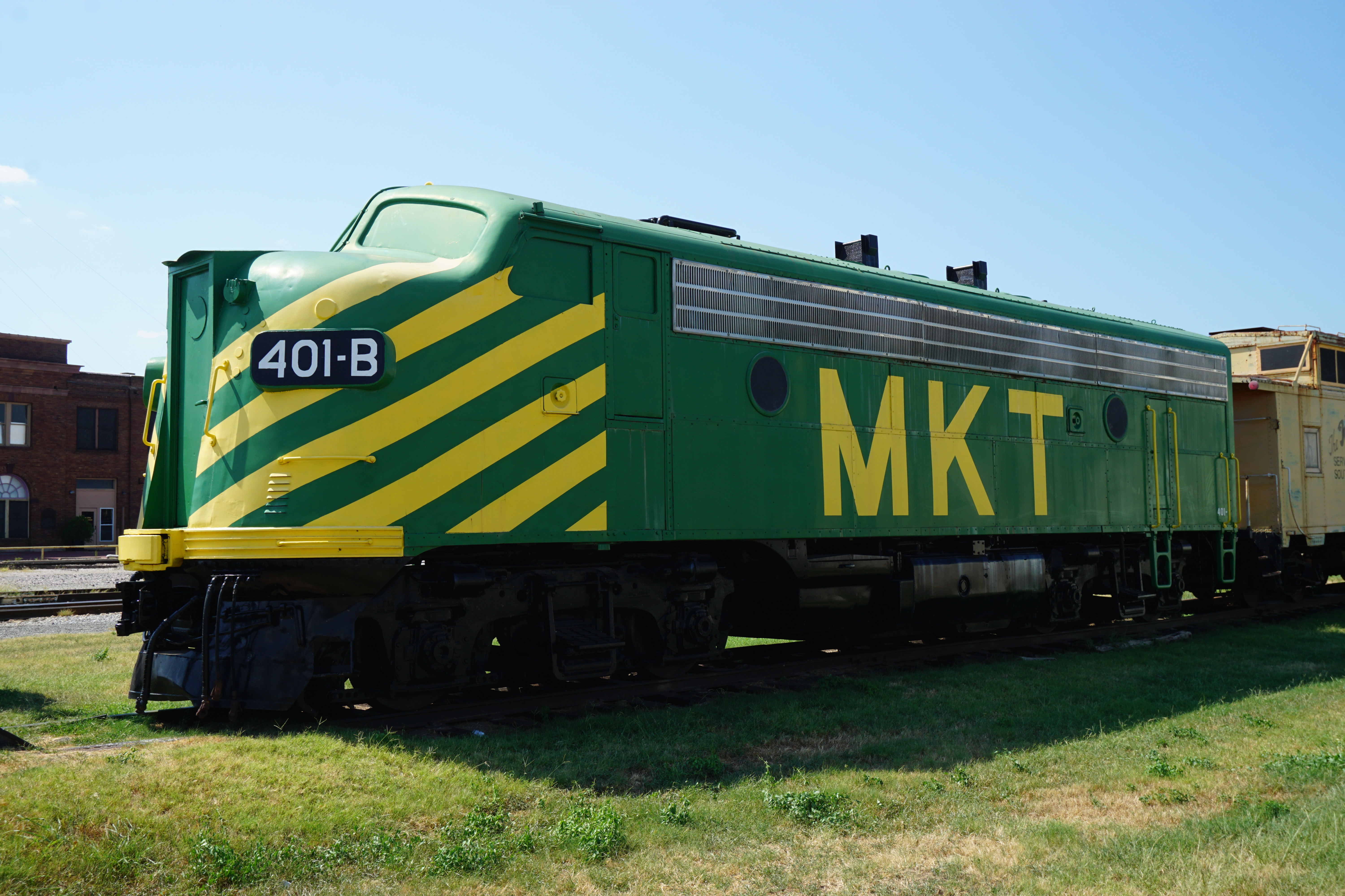 Missouri–Kansas–Texas EMD F9AM No. 401B in Denison, Texas (United States).